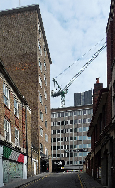 Davis House, Robert Street